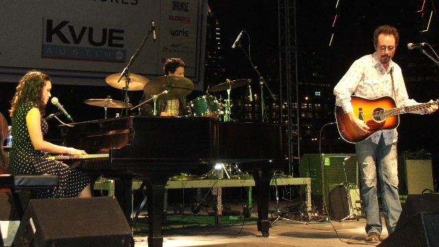 The Little Willies at the South by Southwest Festival 2006.